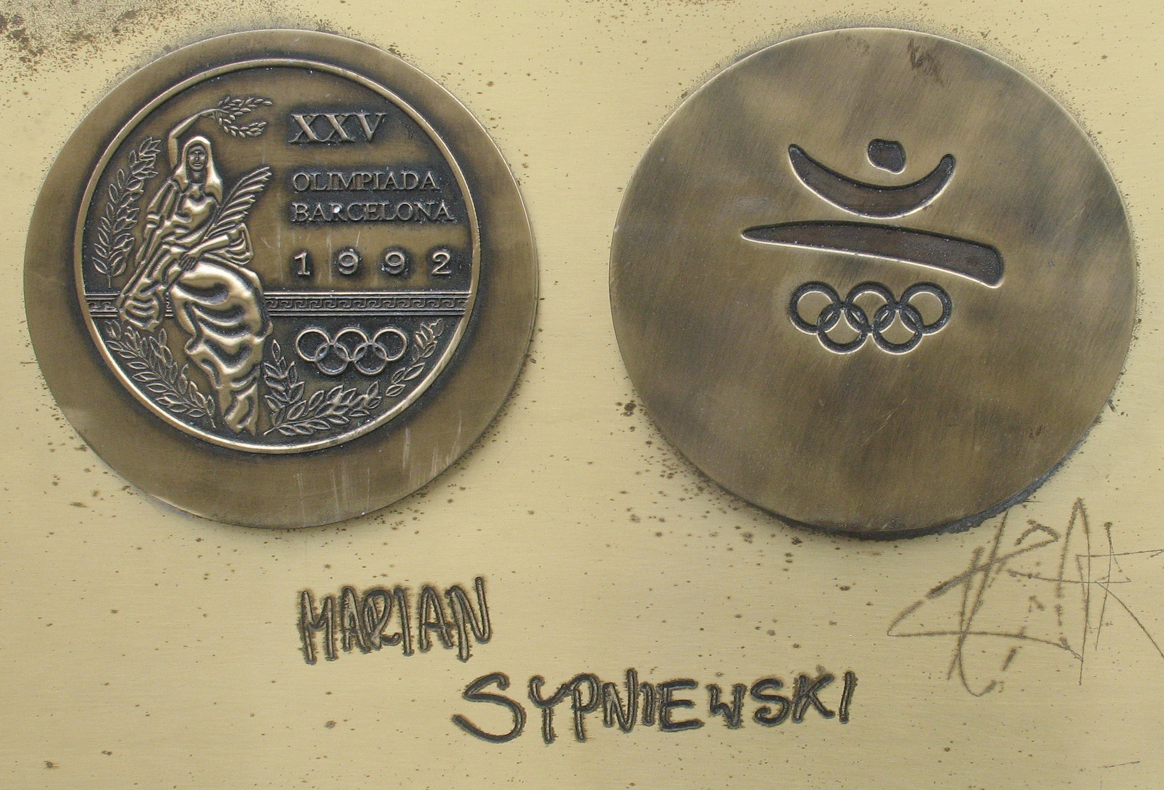 Marian Sypniewski medal & autograph in Avenue of Sport Stars Dziwnów